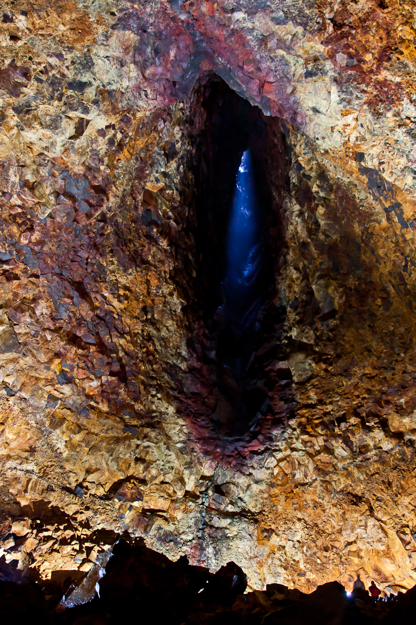 Þríhnúkagígur volcanic crater, viewed from the bottomÍslenska: Þríhnúkagígur, myndaður frá botni gígsins